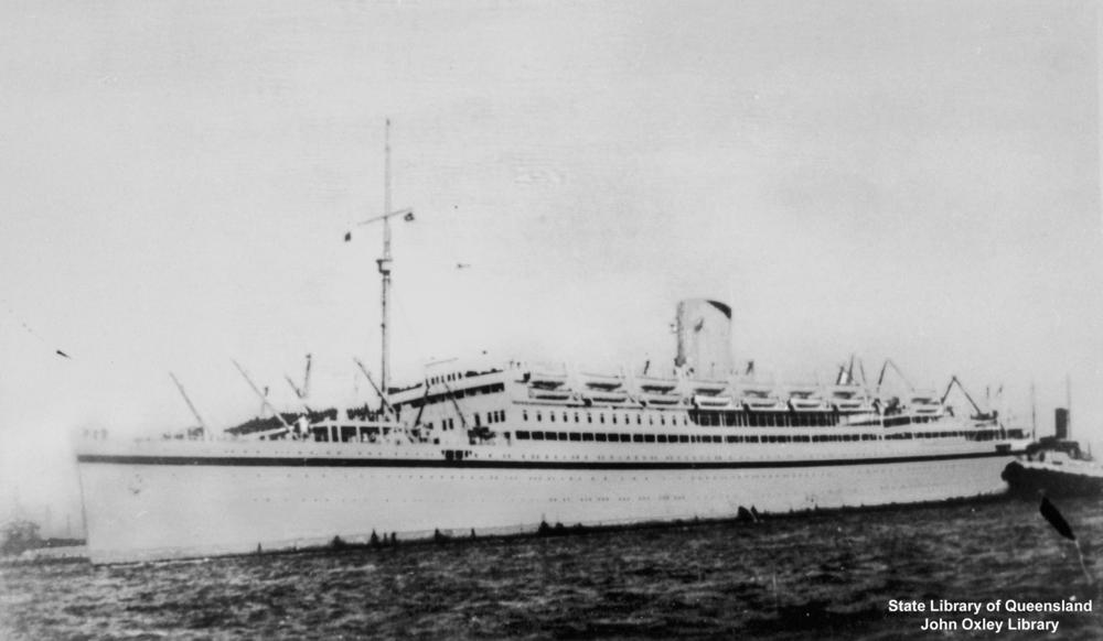 Royal Mail Steam Packet Company 22,071 GRT passenger liner RMS Asturias, built in 1925 at Belfast by Harland and Wolff and scrapped in 1957